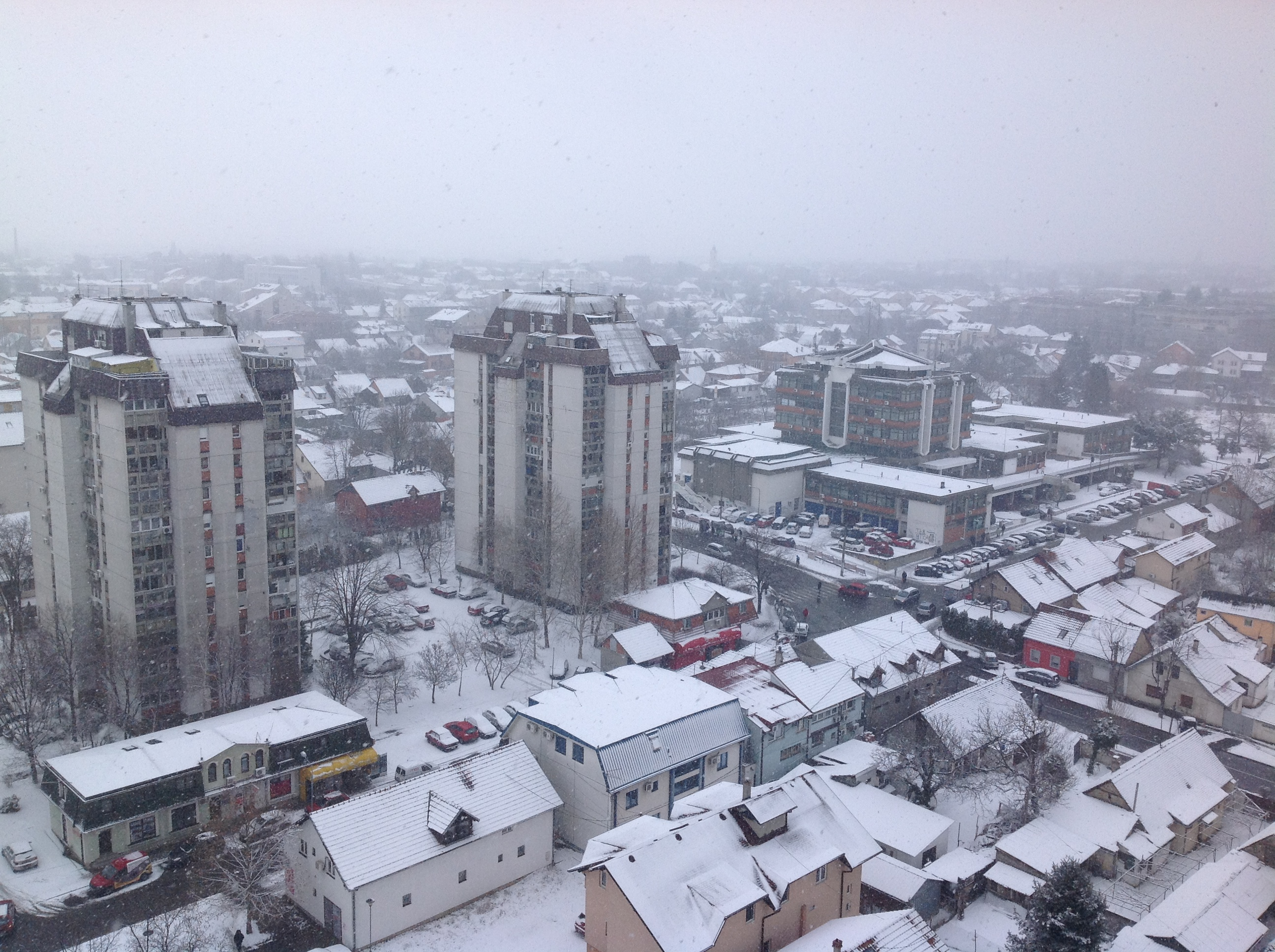 Zemun, Serbia